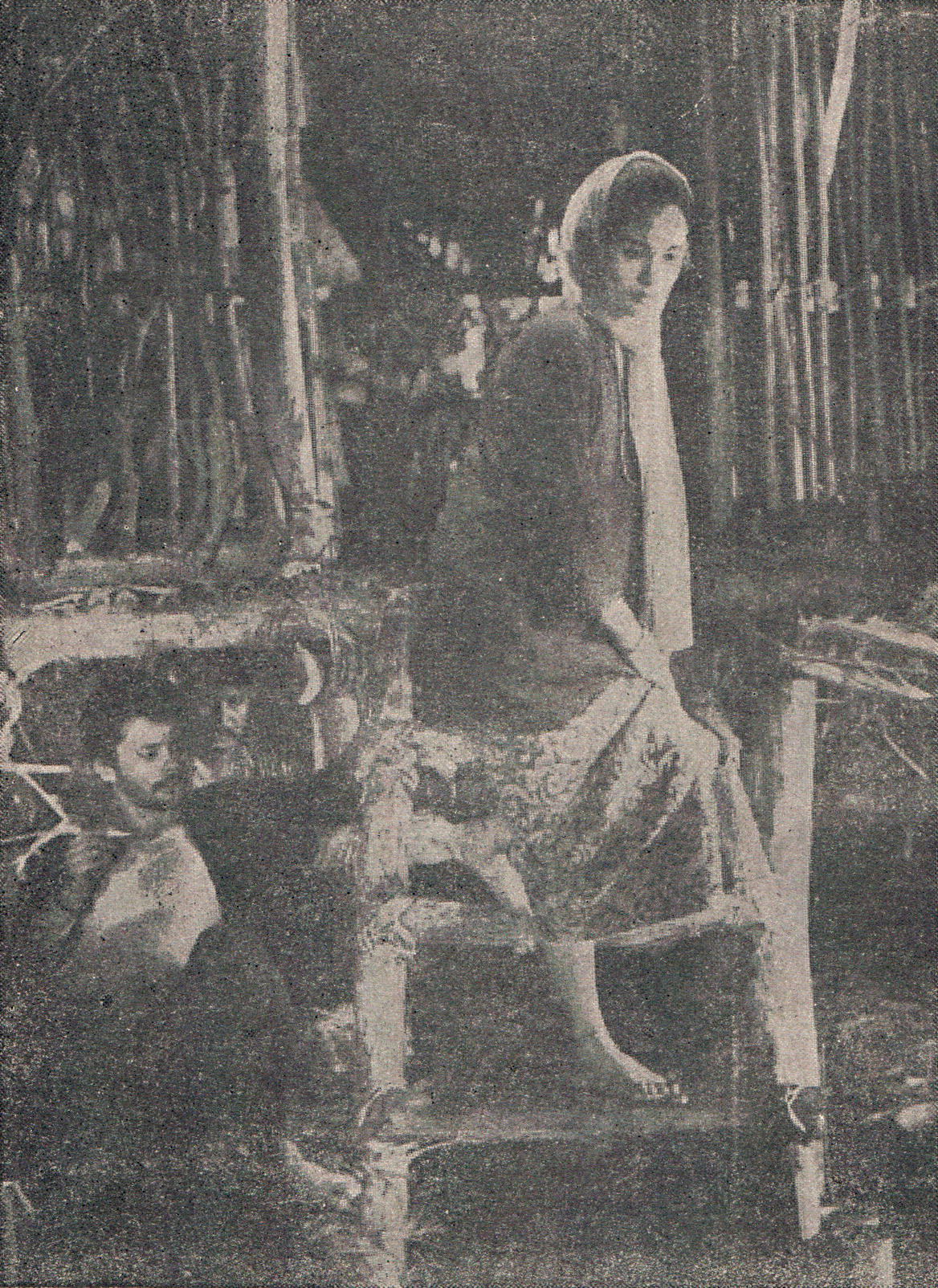 Saju descending the stairs. Anak Perawan di Sarang Penjamun